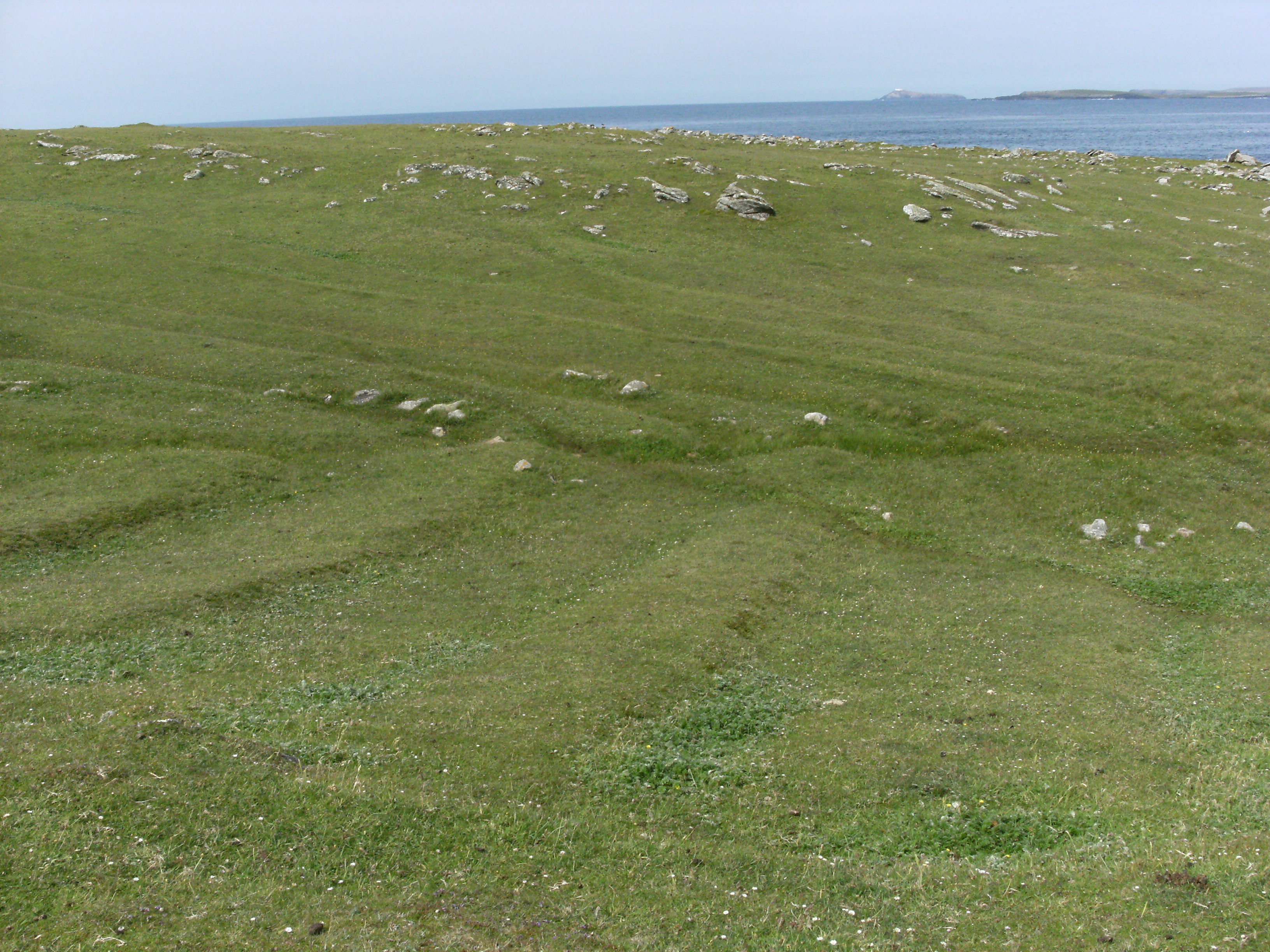 Lazybeds on Inishglora island off the Mullet, Erris, County Mayo, Ireland